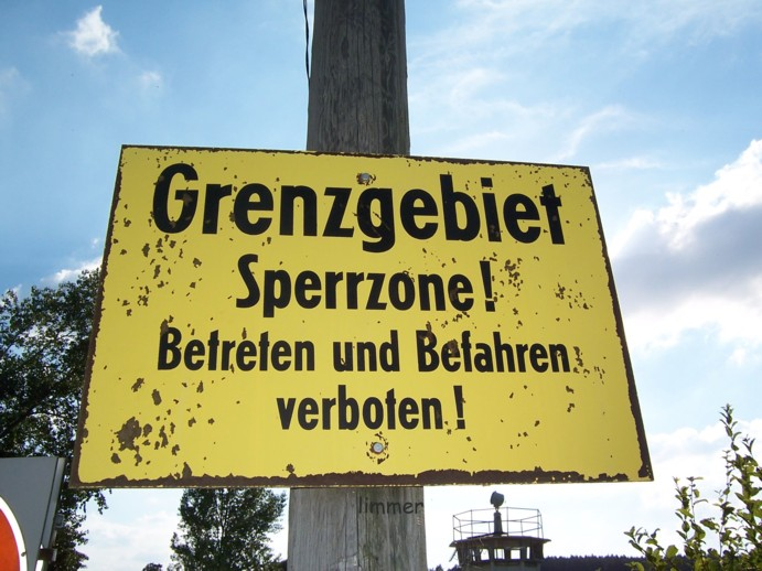 Warning sign on the former inner German border. (English translation: Border restriction area. Trespassing and driving prohibited.) By kalimmer.